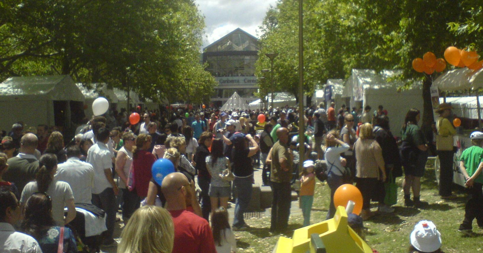 Canberra Multicultural Festival, 2008